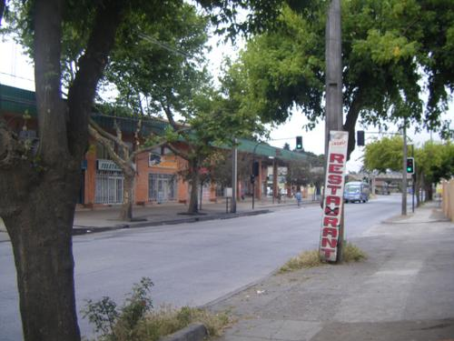 Terminal de Buses Camilo Henriquez, Concepcion